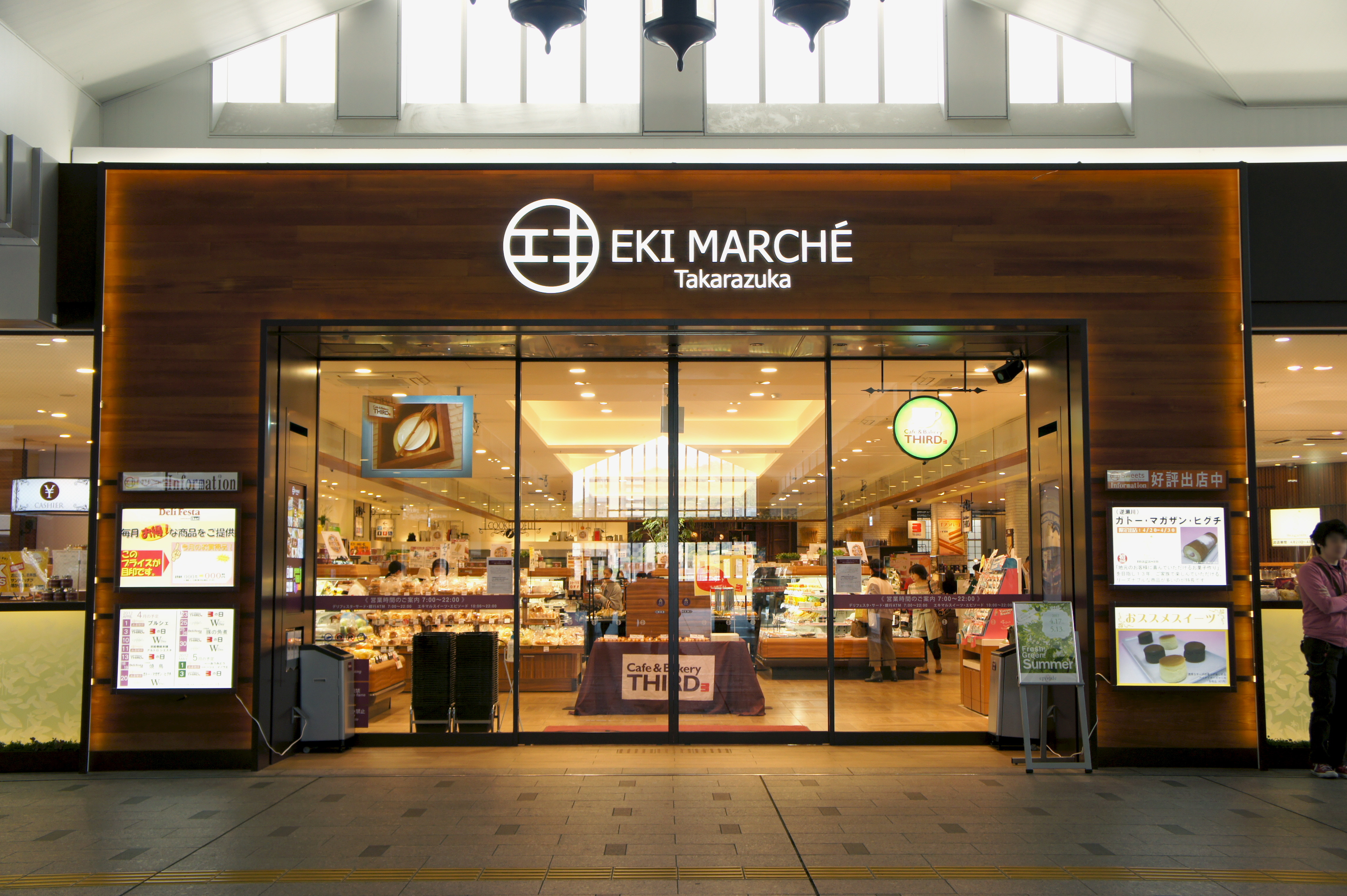 EKI MARCHE TAKARAZUKA, 2-7-13 Sakaemachi Takarazuka-City Hyogo Japan.